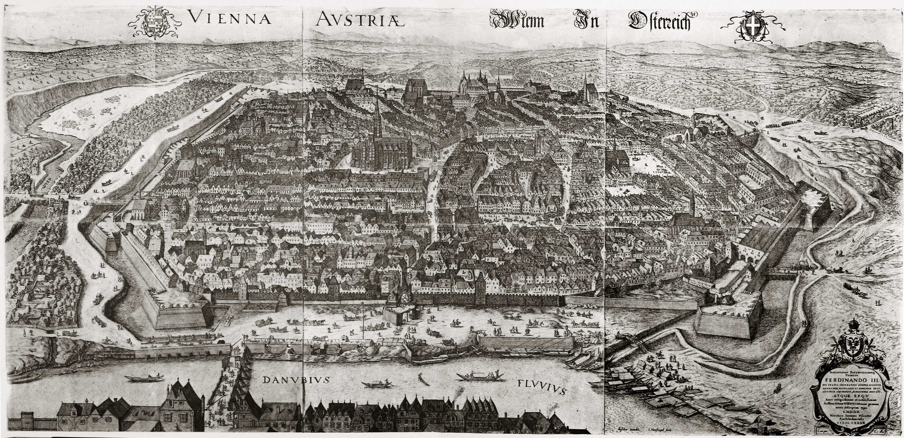 Fortified Vienna around 1609/1640.